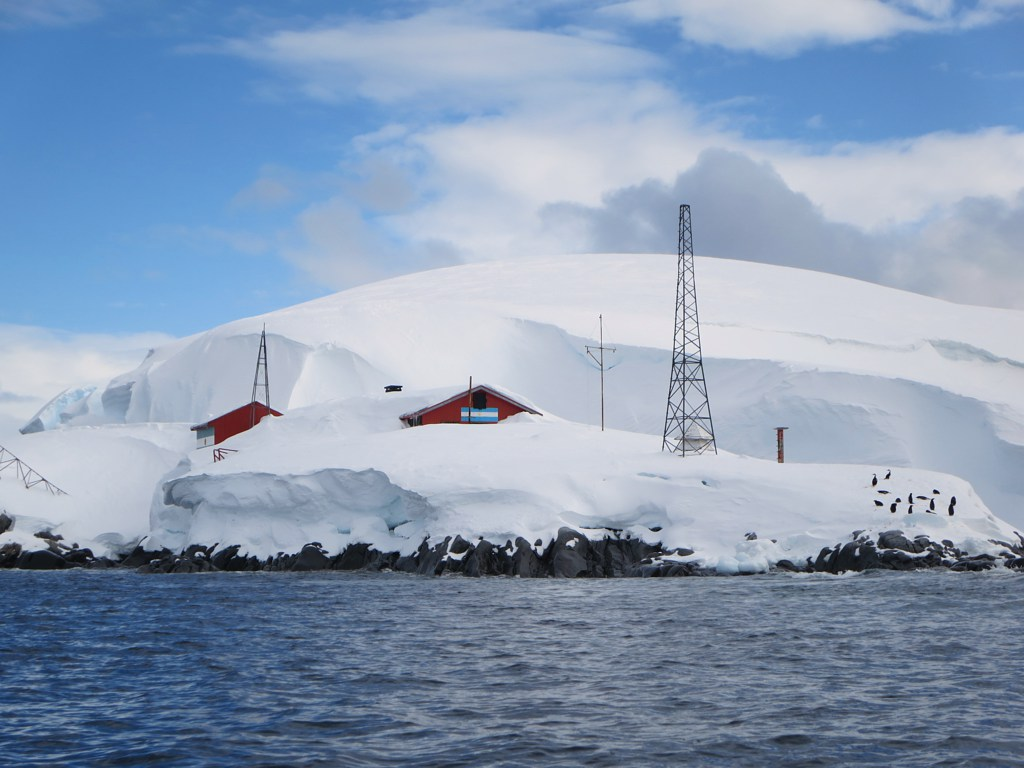 Argentina operates the summer-only Melchior Base on the Melchoir Islands in Dallmann Bay between Brabant and Anvers islands. The station has been used for weather and marine biology research.